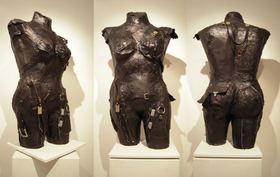 Defender 696; 2010; 38x22x14”; leather, metal, mixed media